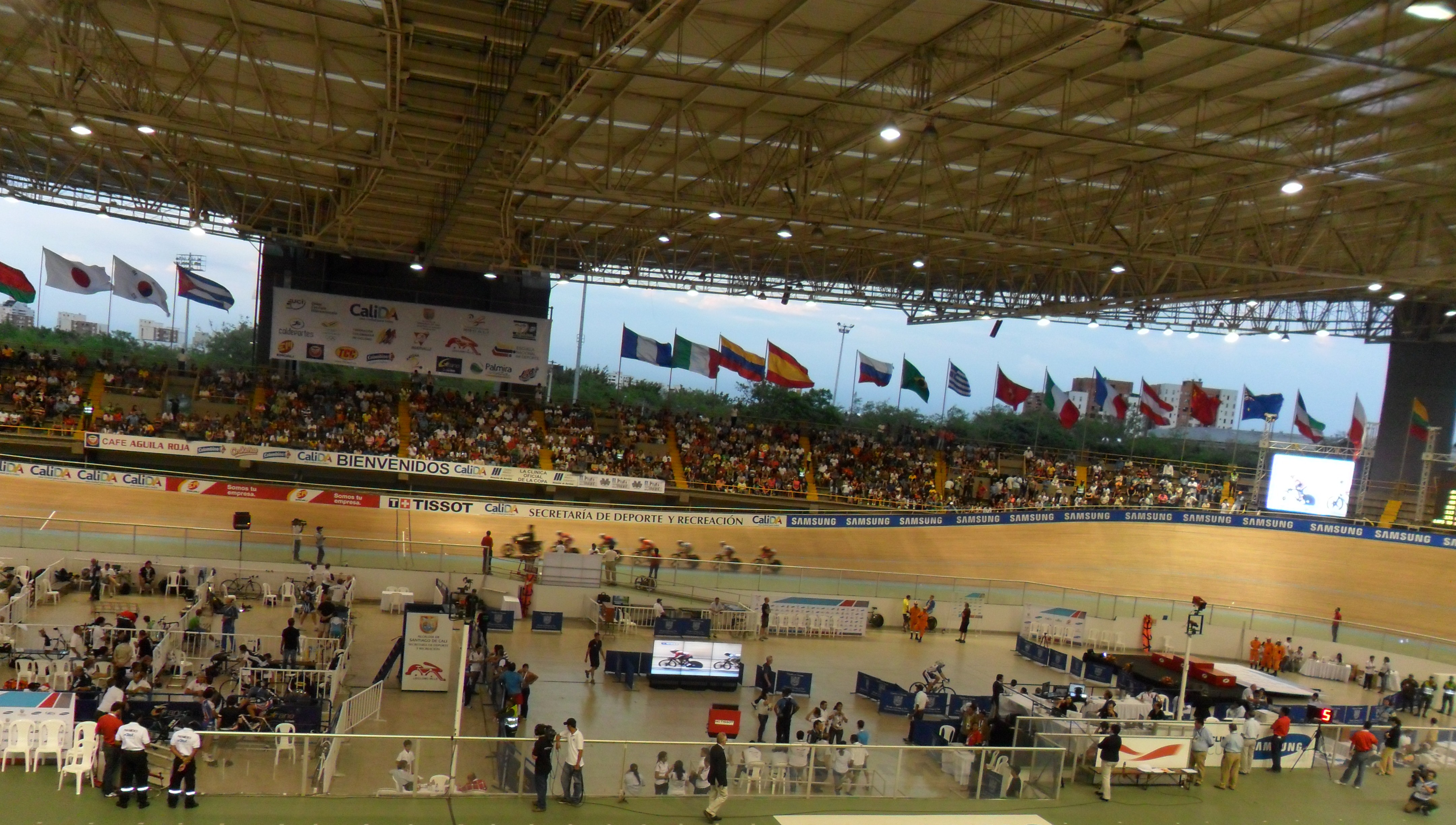 Pista Alcides Nieto Patiño - UCI Track World Cup 2012/2013